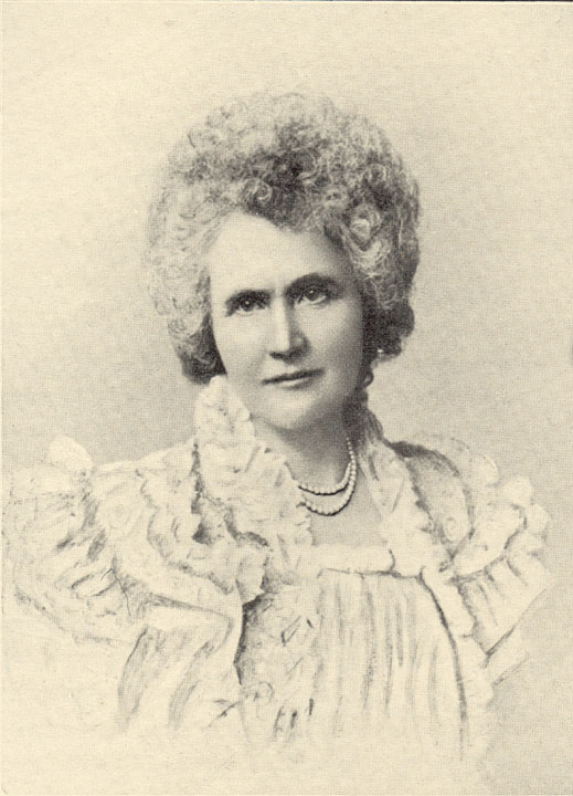 Queen Elisabeth of Romania